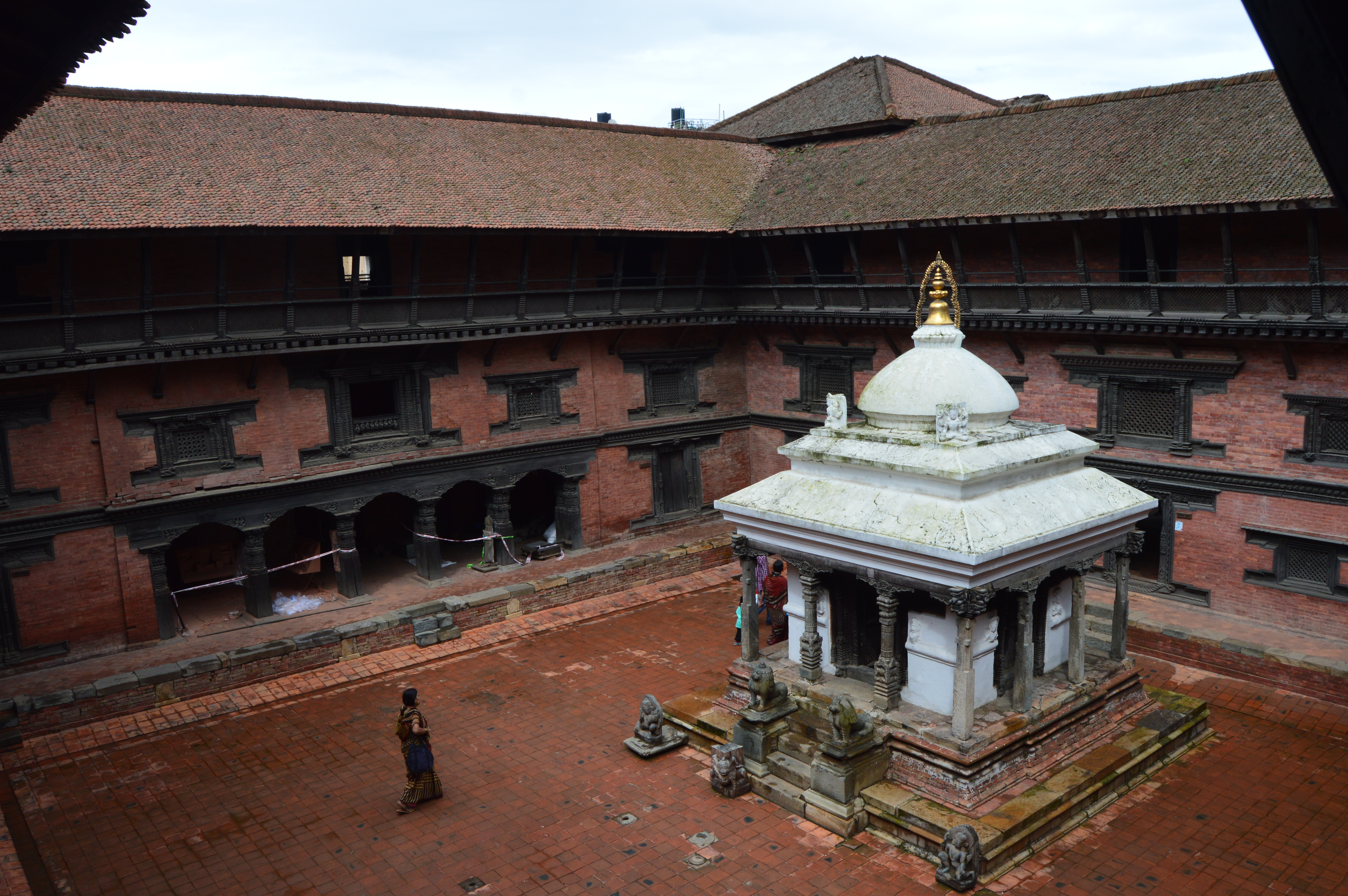 Keshawnarayan Chowk.